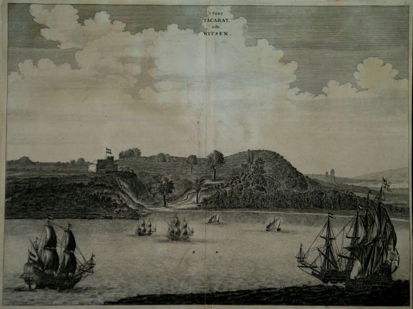 Fort Witsen at Takoradi in the Dutch Gold Coast